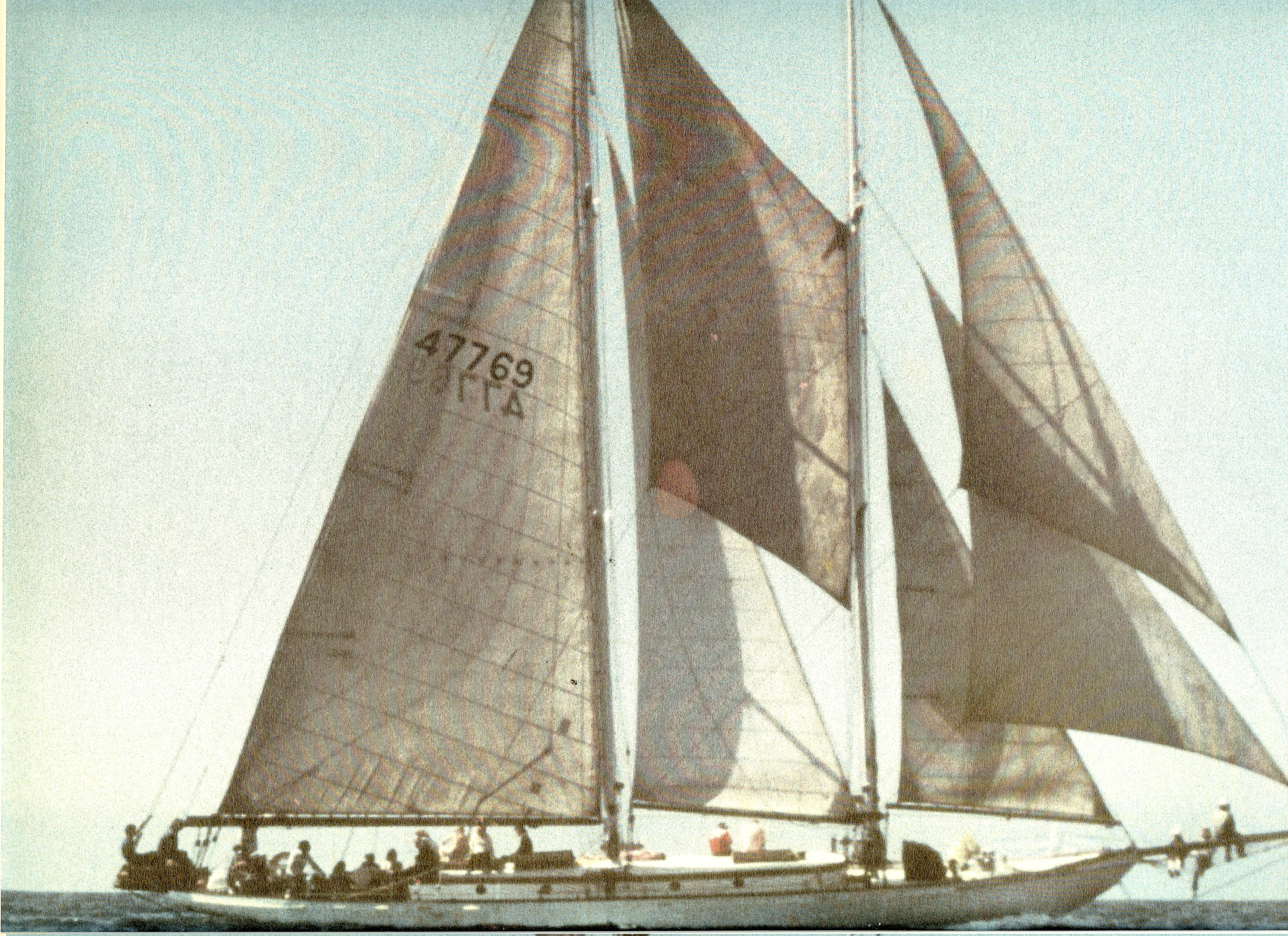 Diosa Del Mar Circa 1979